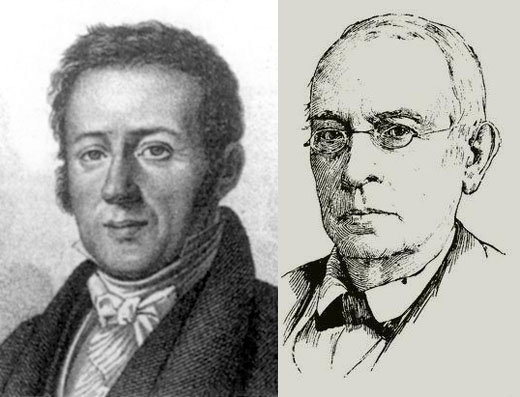 René-Primevère Lesson and Felipe Poey; both descriobed the shark species Carcharhinus longimanus